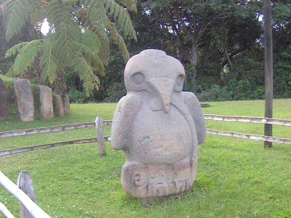 Statue of the San Agustín indian cult in Colombia: Eagle with snake (vulcanic rock, height approx. 160 cm)